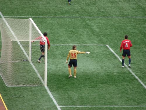 From left: Yury Zhirkov, Igor Akinfeev, Sergei Ignashevich. 2007 Russian Football Premierleague (PFC CSKA Moscow v.s. FC Saturn)